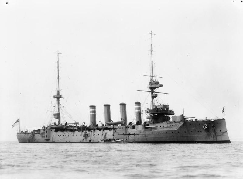 Photo of HMS Hampshire : it is a commercial photo likely taken to produce a series of postcards by H. Symonds & Co of Portsmouth, which is no longer in operation (similar set).